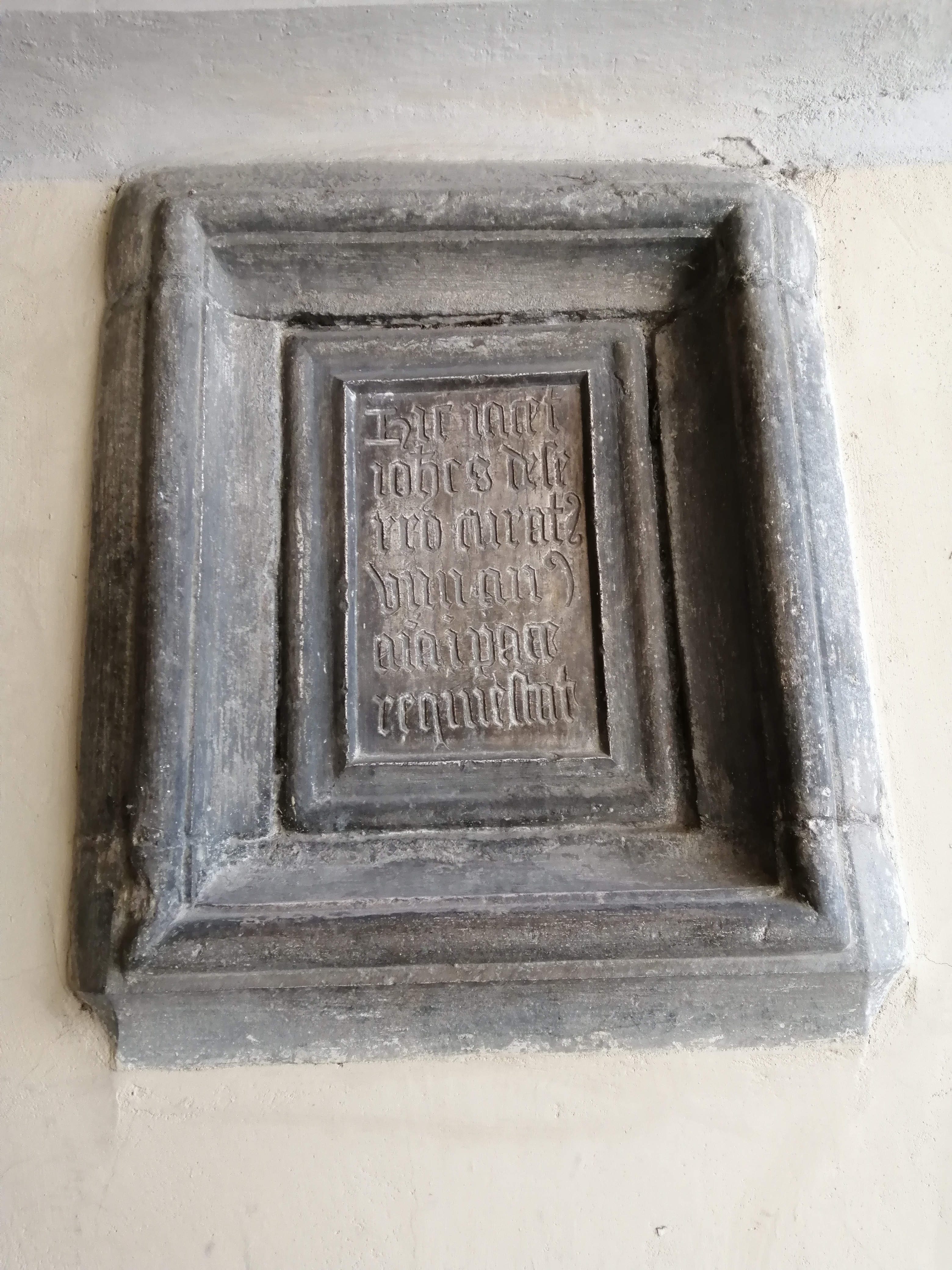 Funeral inscription of a 16th century priest in Saint-Jean-Baptiste Church (Vif, France)